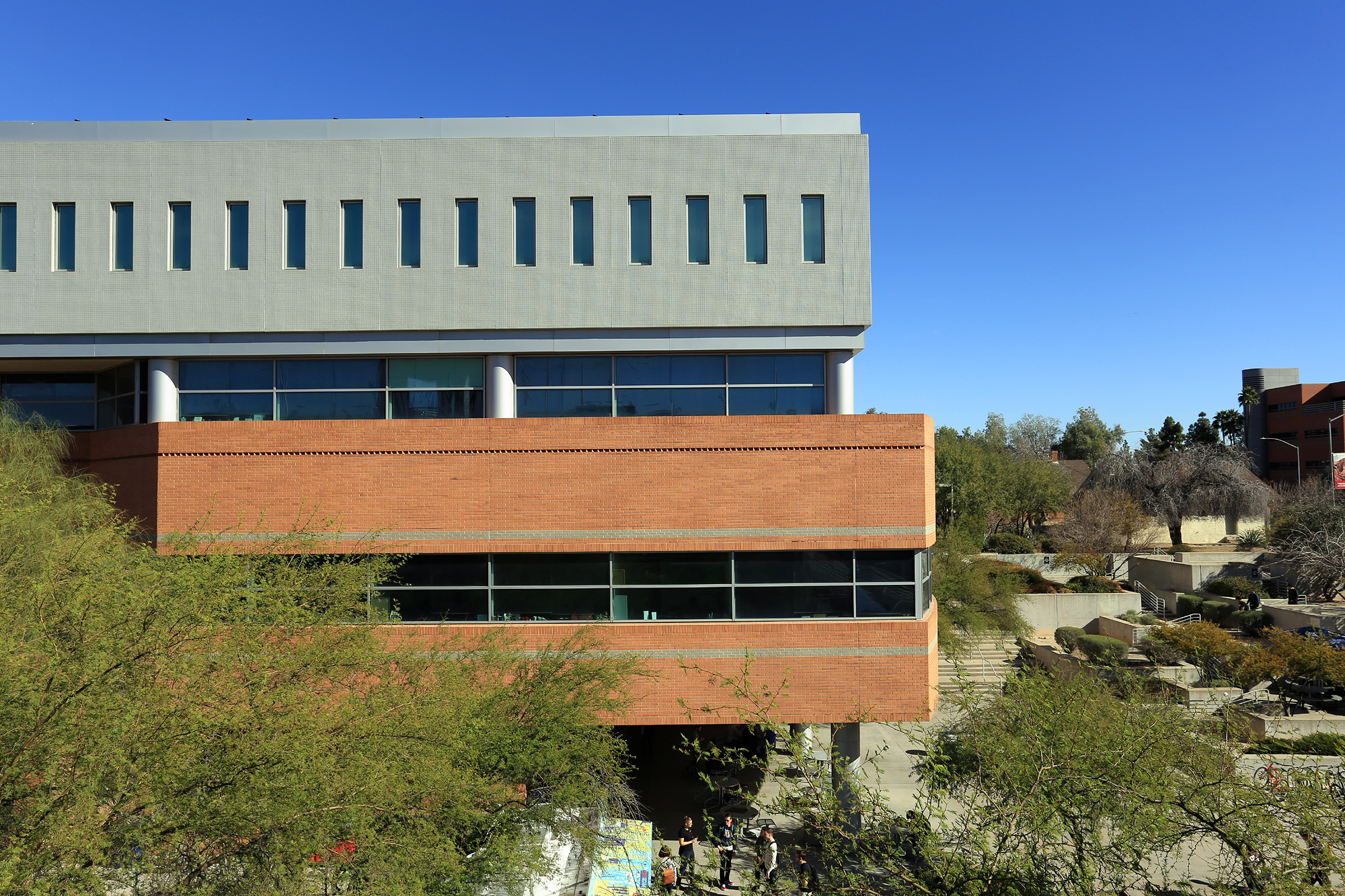 UA Eller College of Management